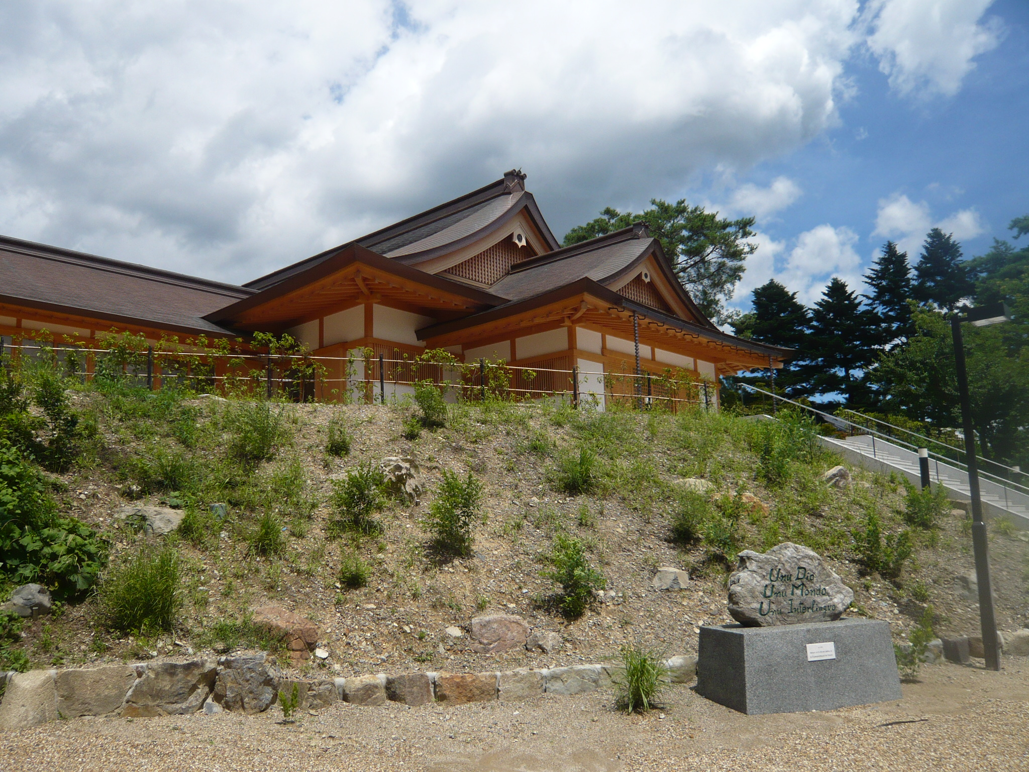 head office of Oomoto church at Kameoka, Japan, and monument